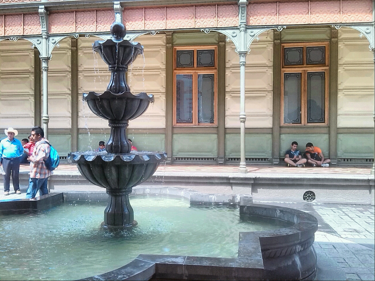 Iron Palace outside in Orizaba, Veracruz, México